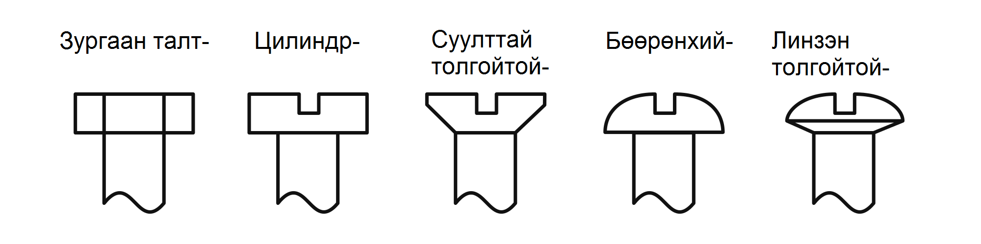 Screw head shapes